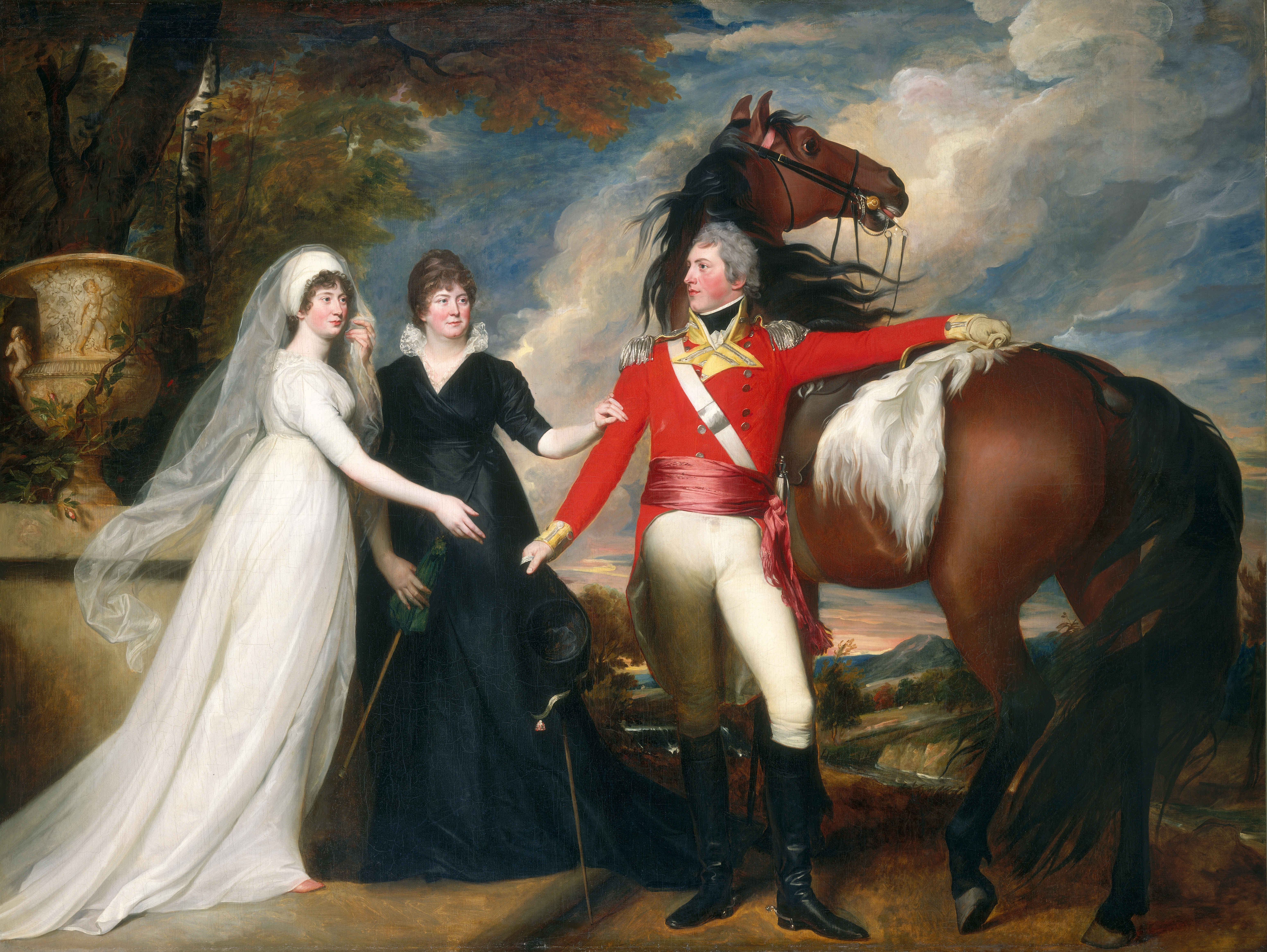 Col. Fitch is shown in army uniform with his horse, and one of his sisters is shown in neo-Classical pure white, while the other is in apparent mourning.